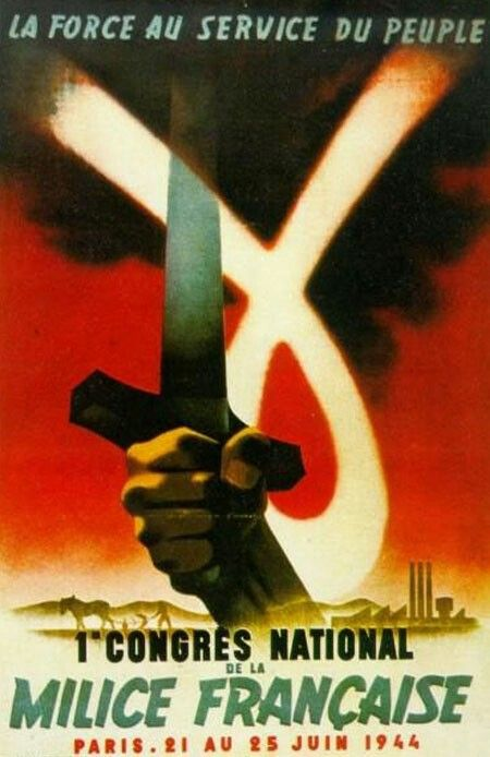 propaganda poster for the Milice Française